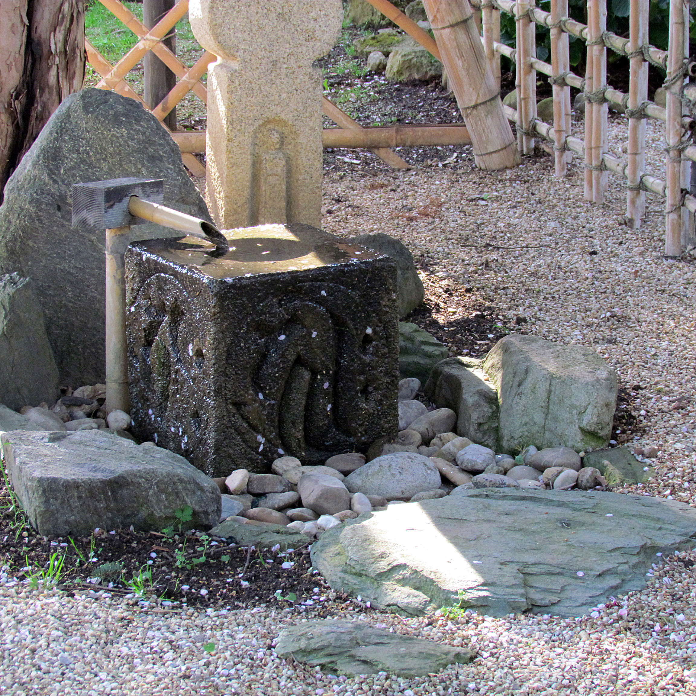 Tsukubai in Schönbrunn gardens, Wien